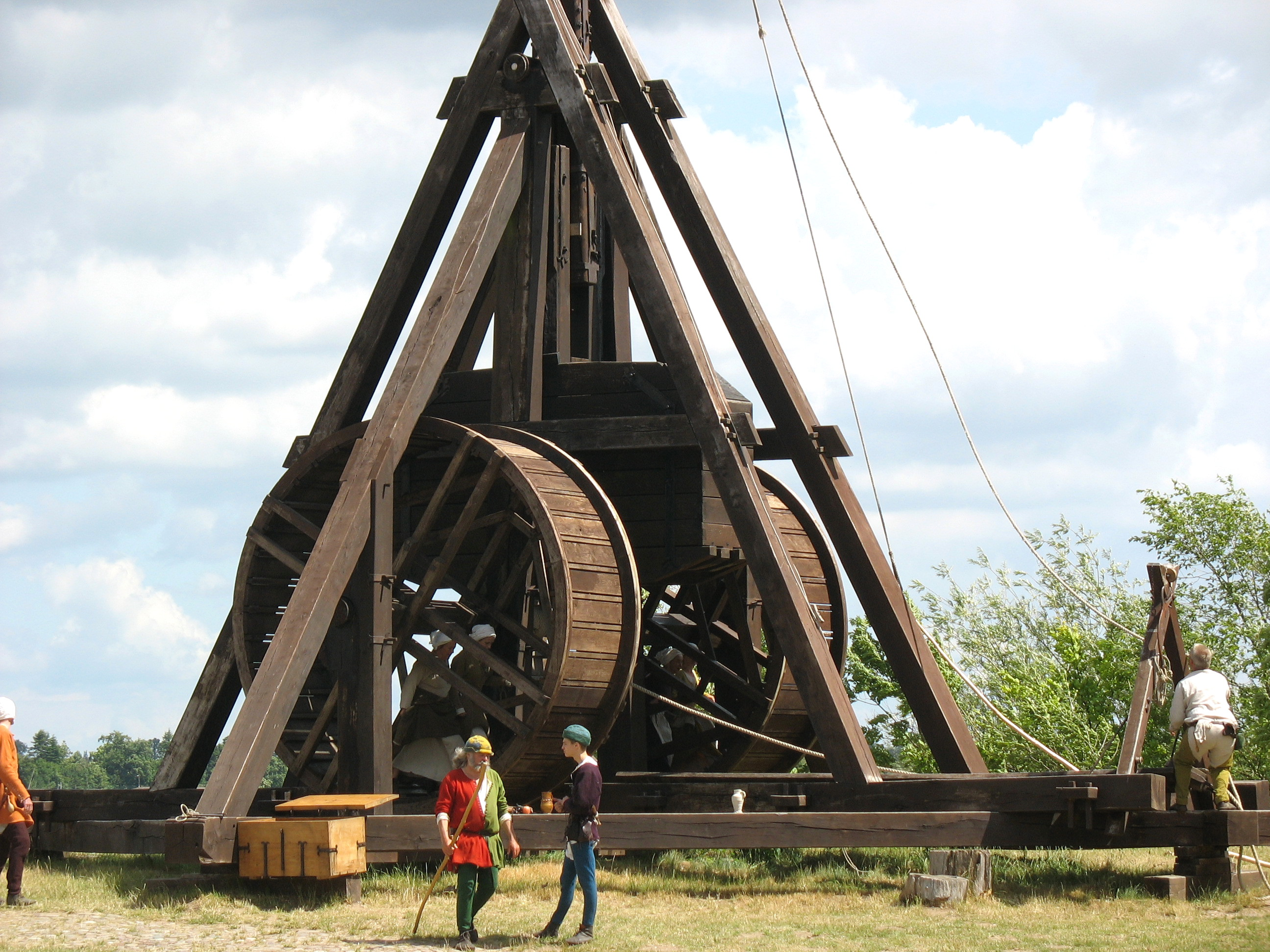 A "blide" (Trebuchet) from the Middle Age museum "Middelaldercentret" located close to the town "Nykøbing Falster". The location is the island Lolland in east Denmark.